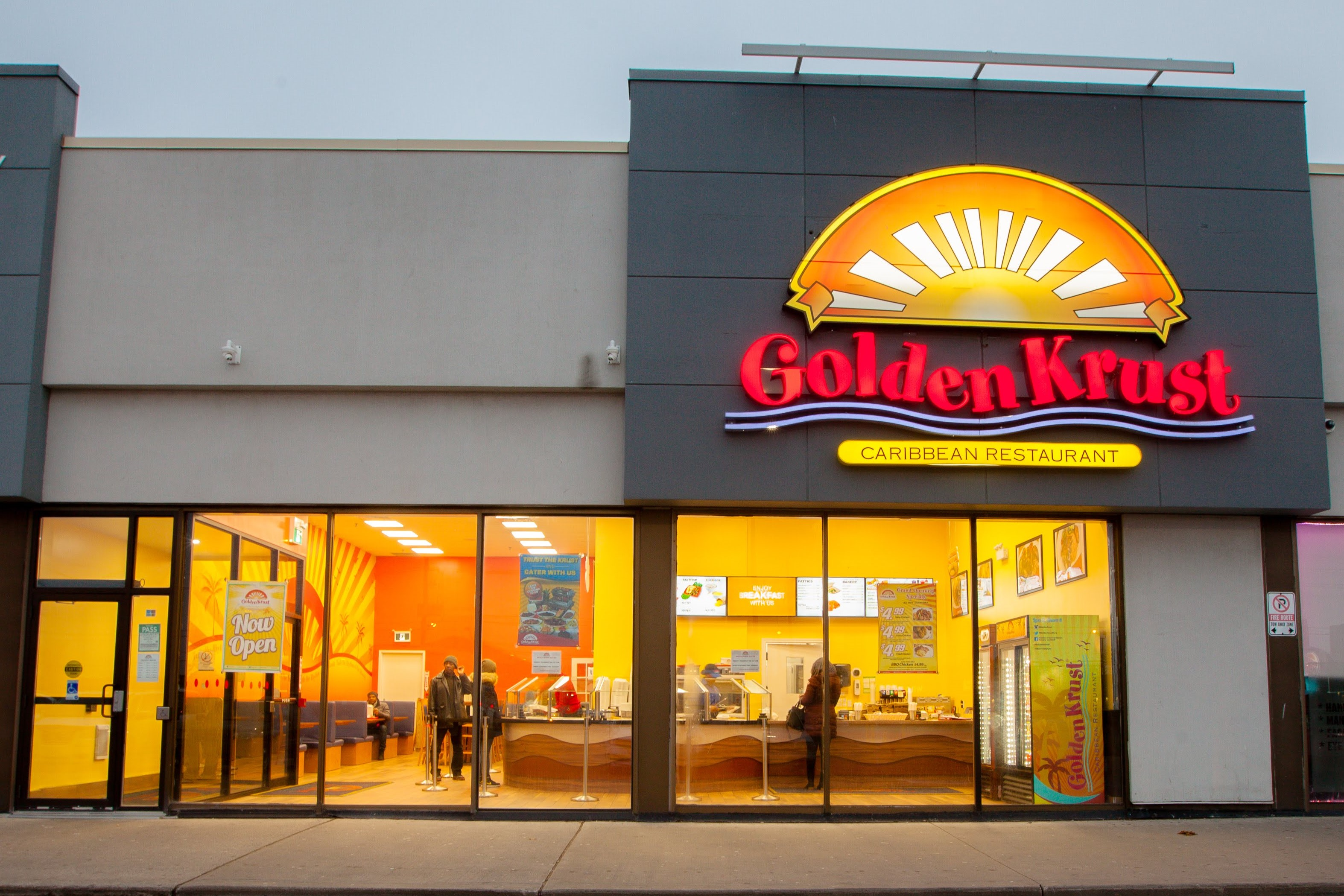 The exterior view of Golden Krust Caribbean Restaurant at Sheridan Mall (North York, Ontario, Canada)